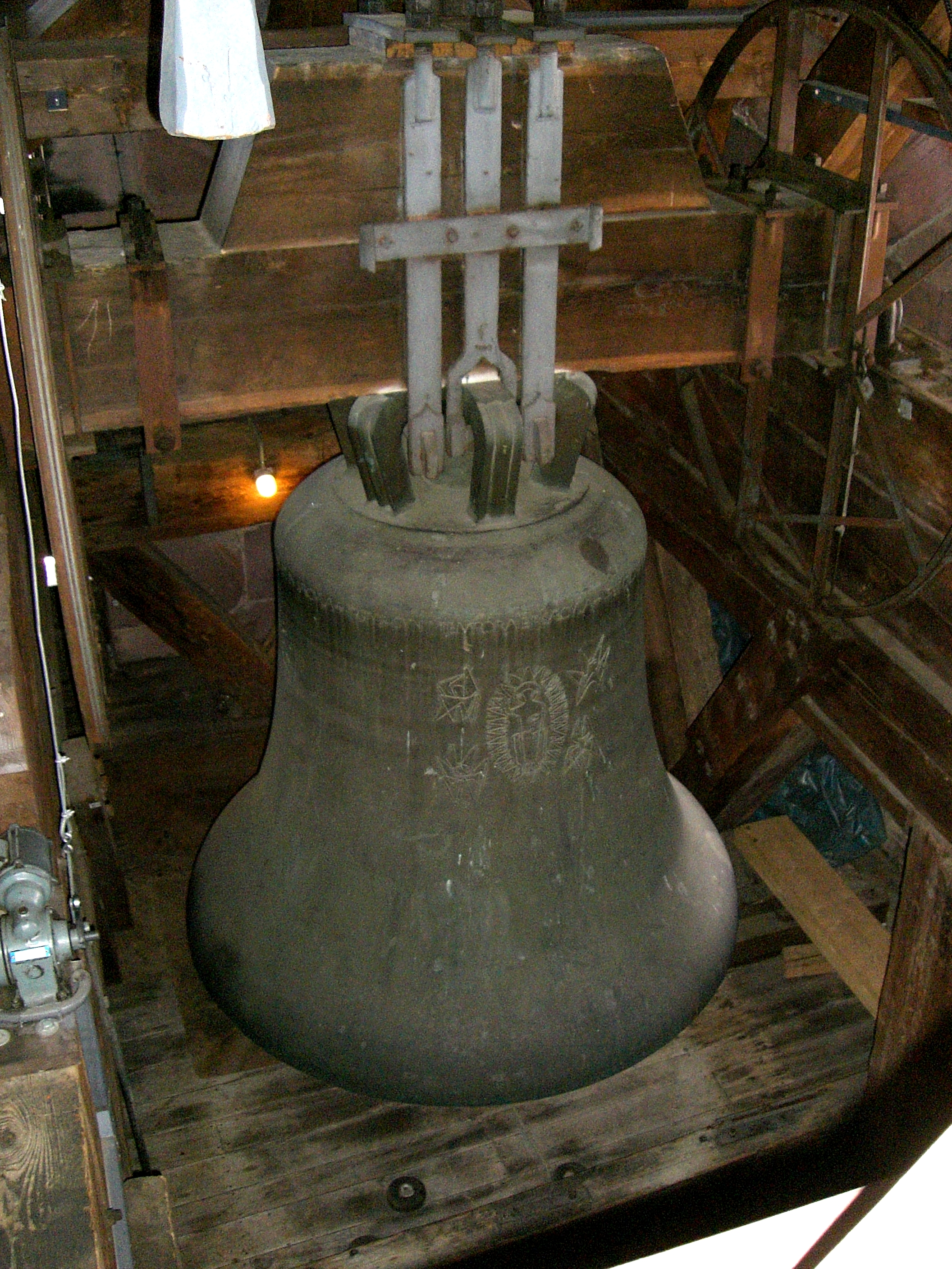 Christ-bell in the bell tower of the Freiburg Cathedral